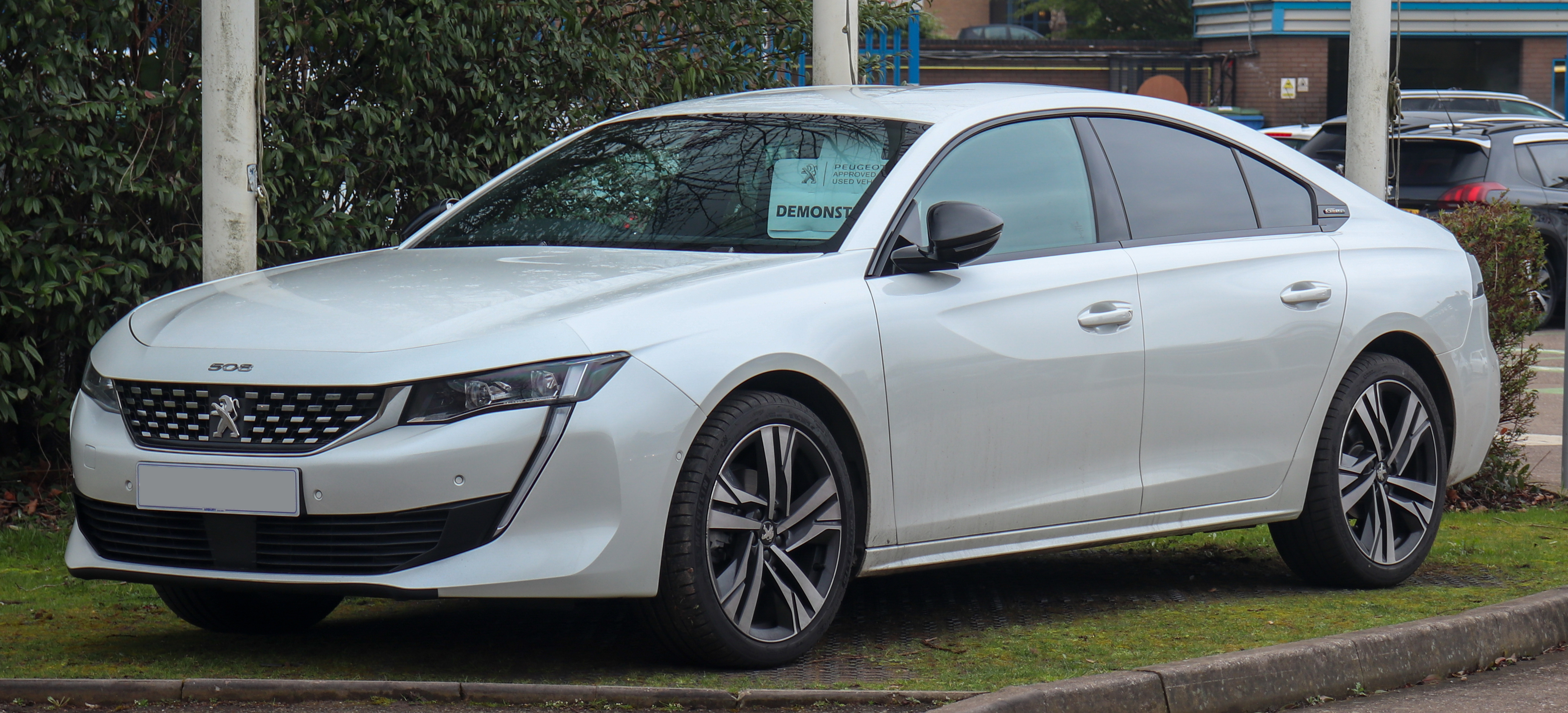 2019 Peugeot 508 GT-Line BlueHDi 1.5 (130 PS) Front Taken in Leamington Spa